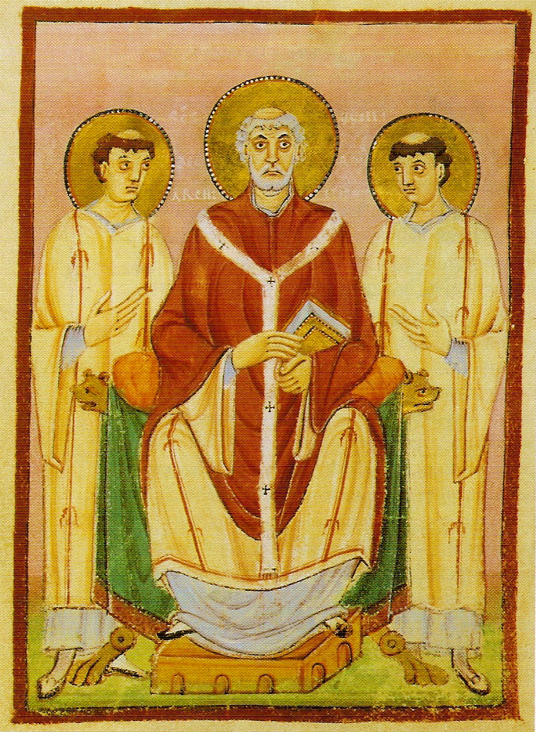 Willibrord, first bisschop of Utrecht